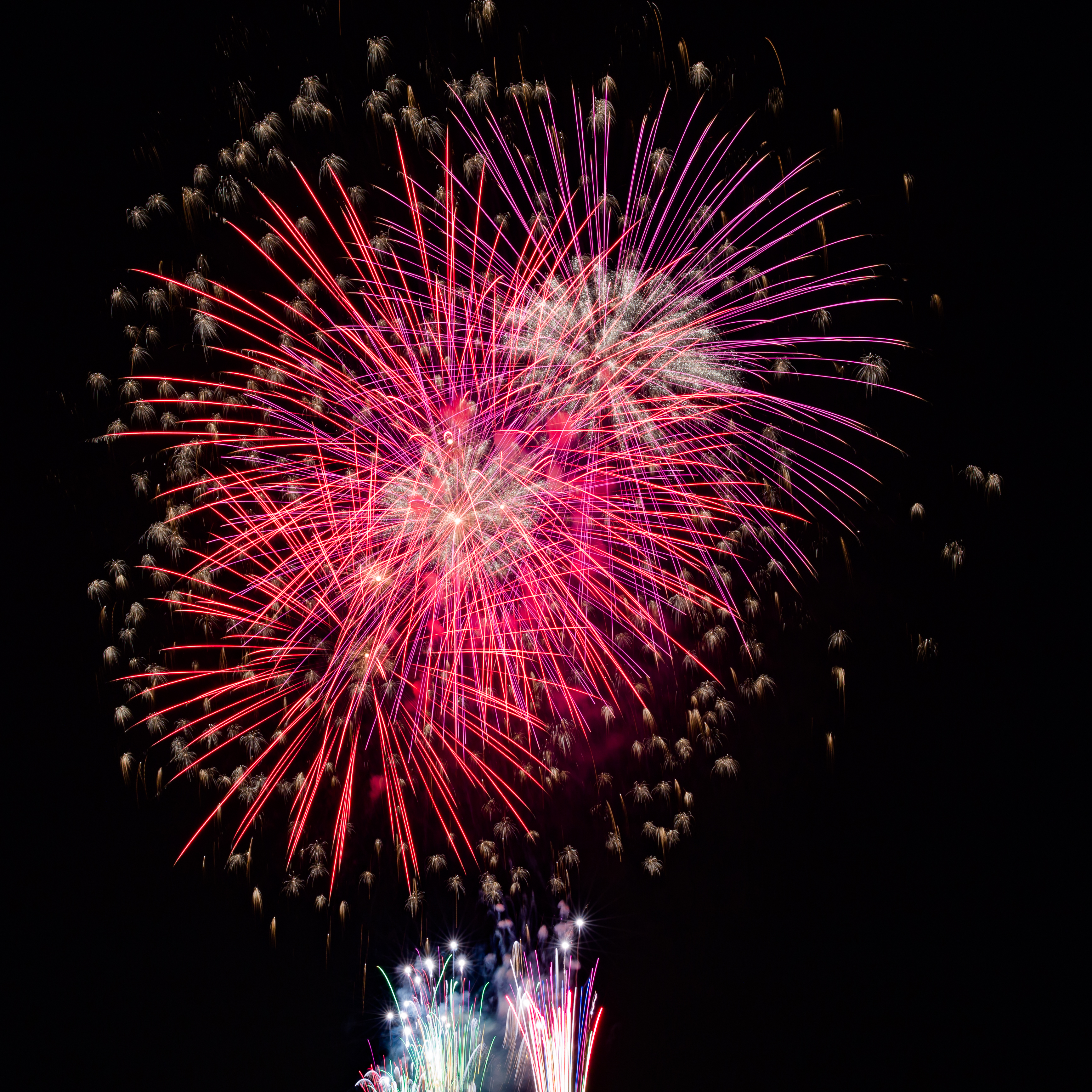 Fireworks in Annecy, France.